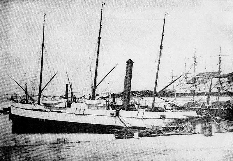 French cableship "Ampere1" in 1864.